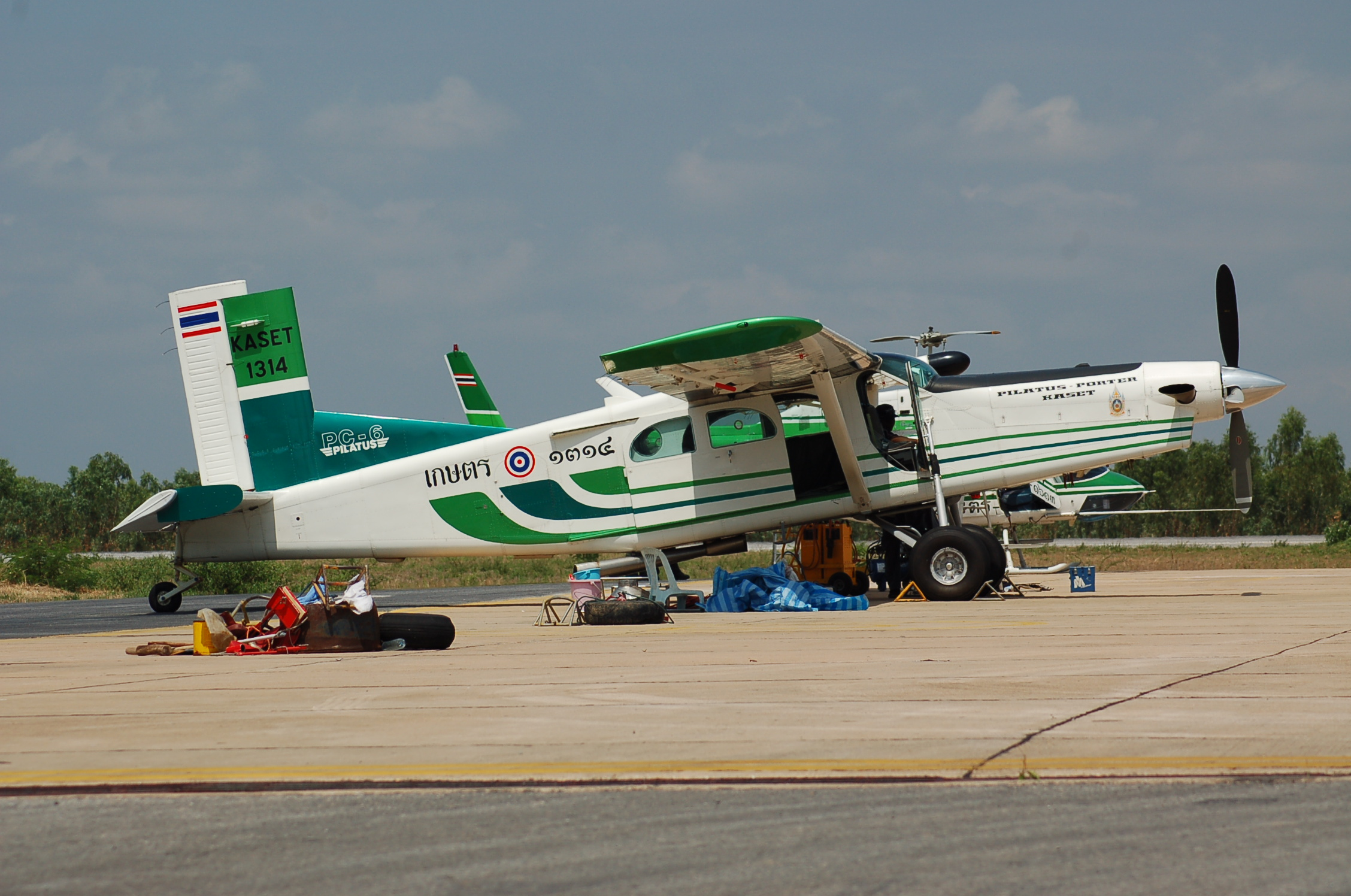 Pilatus PC6 Porter of KASET-Bureau of Royal Rainmaking & Agricultural Aviation at Khon Kaen,Thailand 21/03/09.